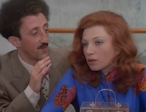 photo from the Italian film Teresa la ladra (1972)